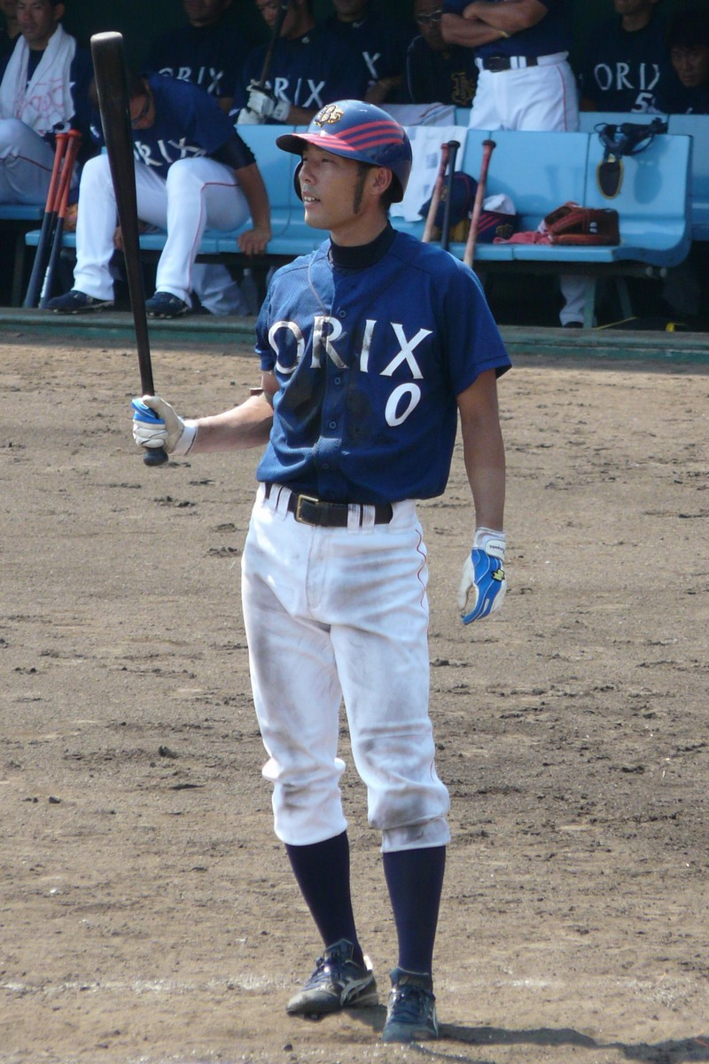 Makoto Moriyama, infielder of the Orix Buffaloes, at Hanshin Naruohama Baseball Ground